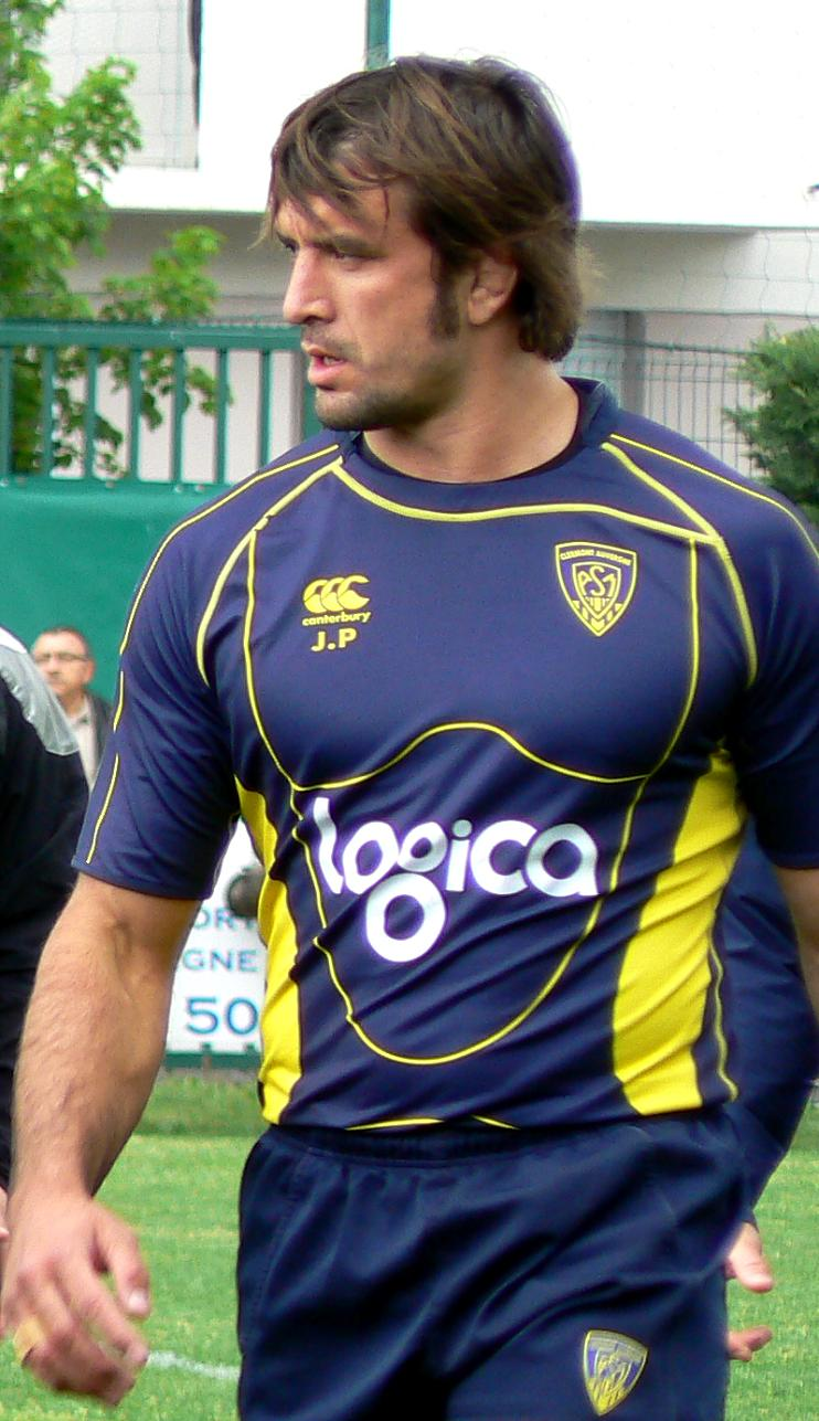 The french rugbyman Julien Pierre with ASM Clermont Auvergne